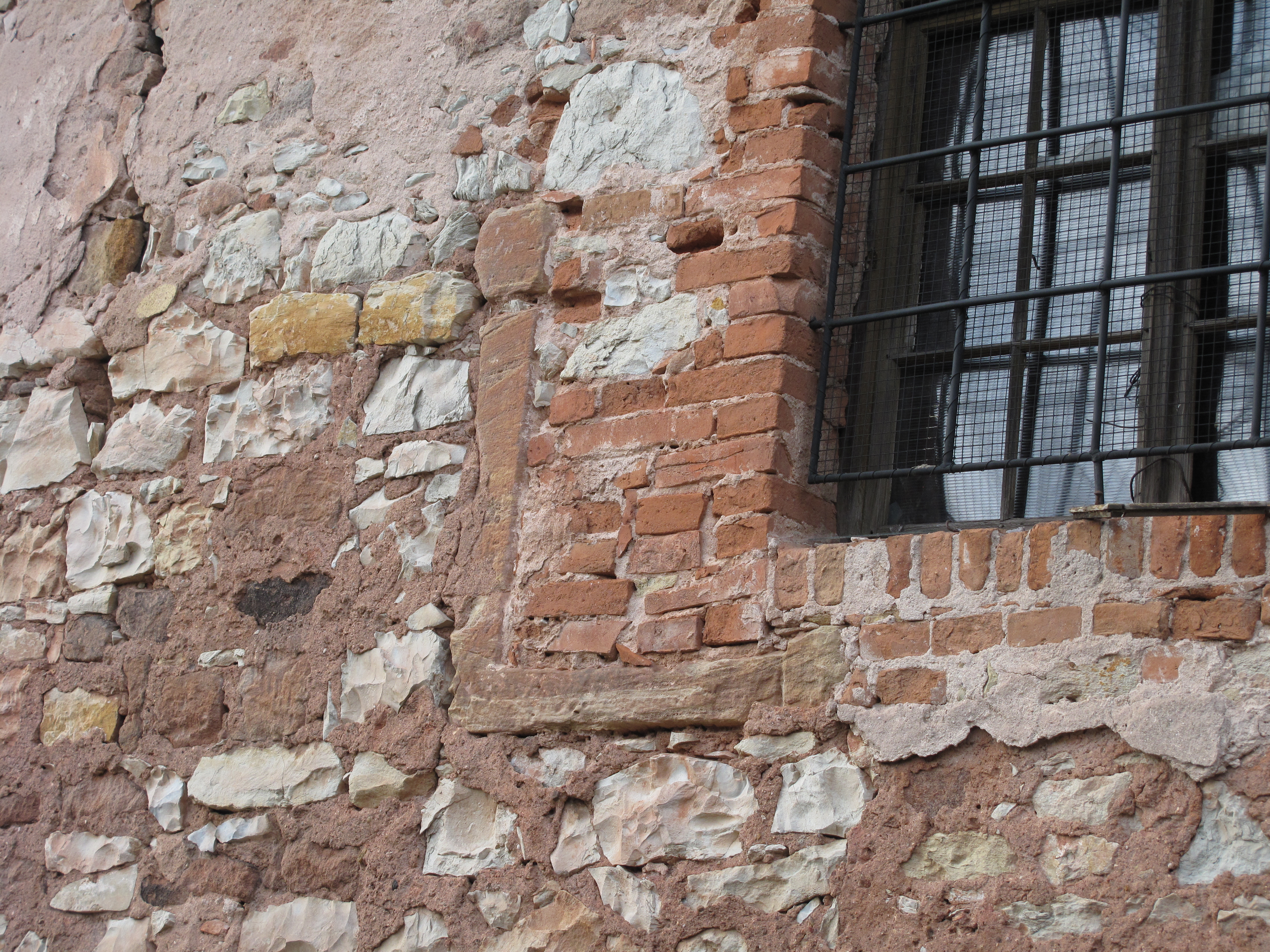 New and old window of the Church of Saint Bartolomew in Nečemice village, Louny District, Czech Republic.